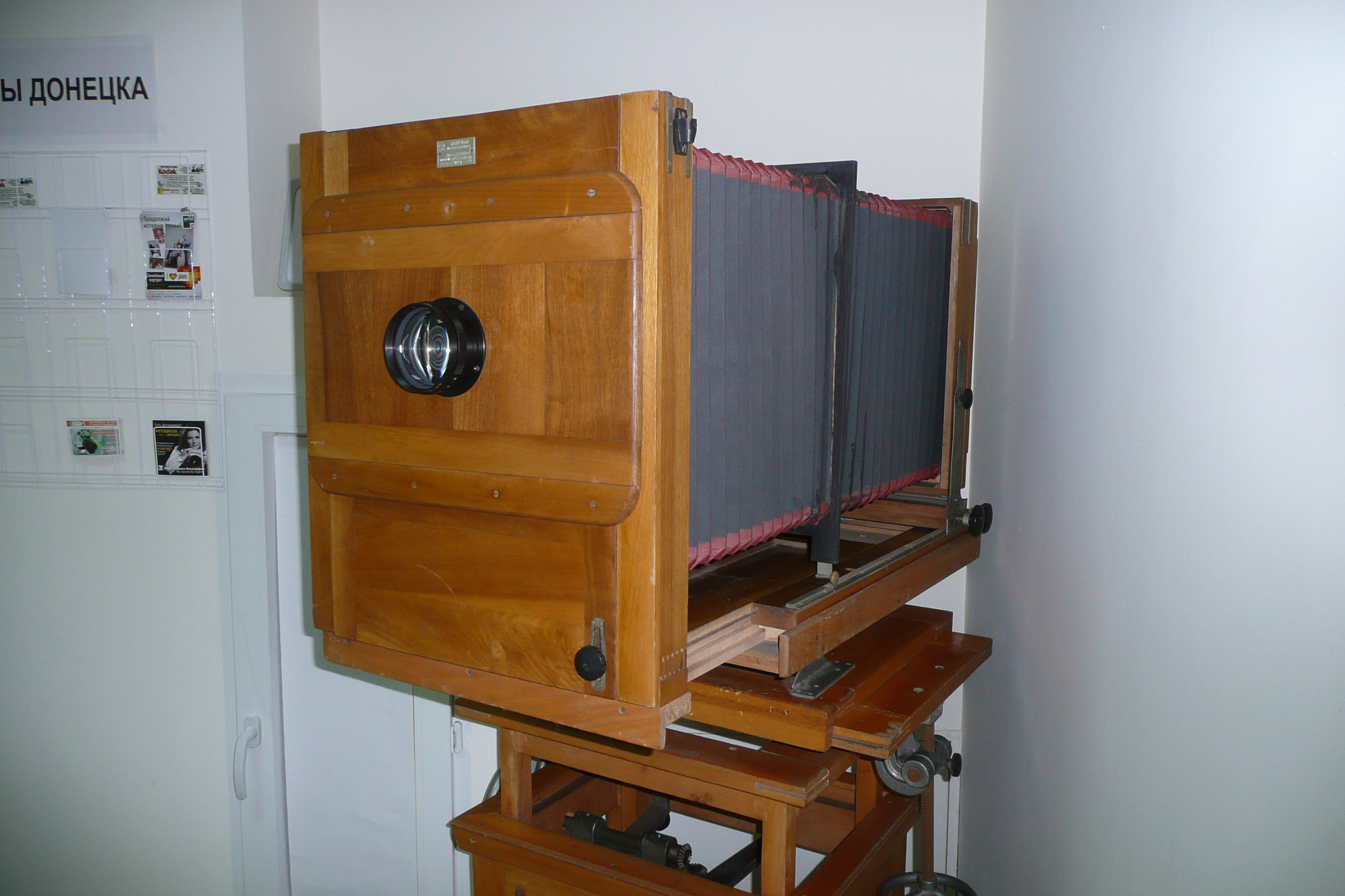 Camera ФКР 30×40